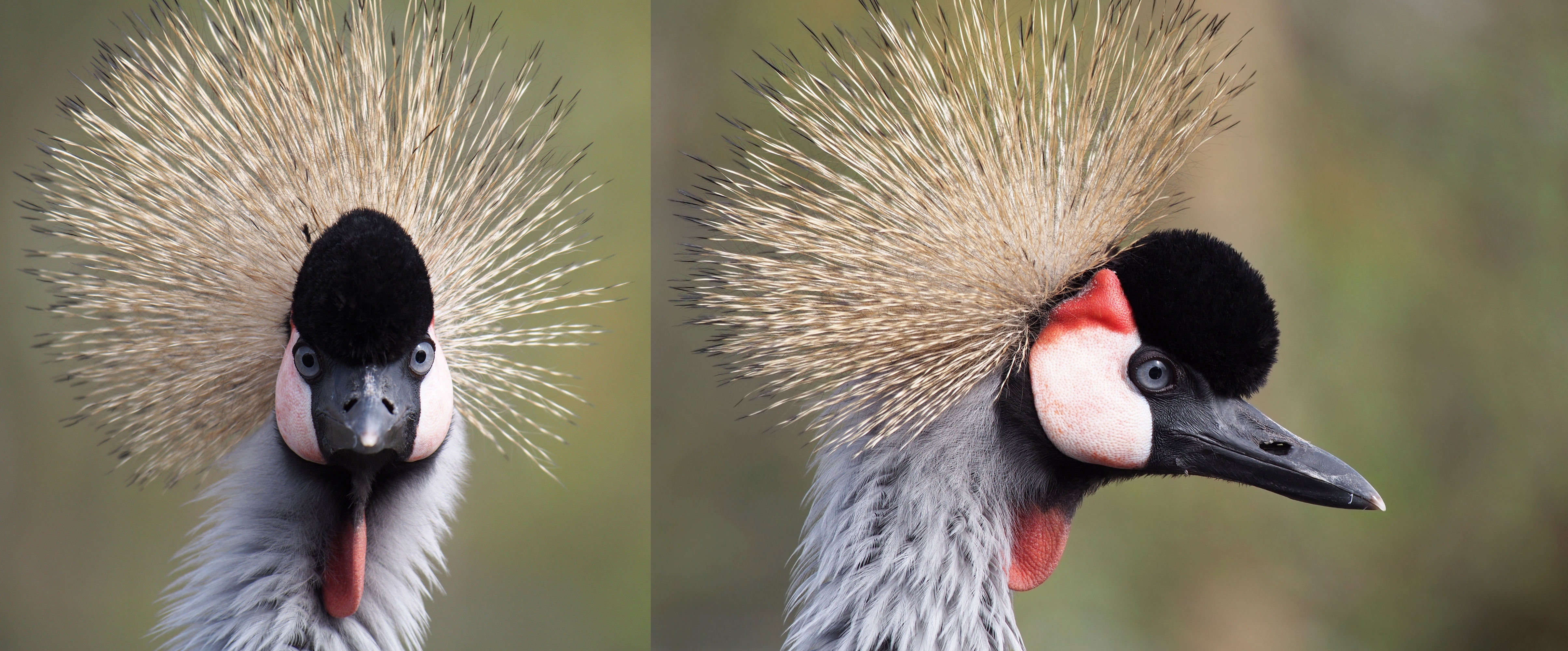 Front and side views of a grey crowned crane (Balearica regulorum) head, illustrating how it has laterally-placed eyes that can also face forward to provide stereopsis